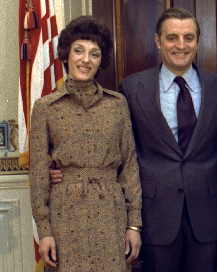 Joan Mondale, Vice-President Walter Mondale (1977)